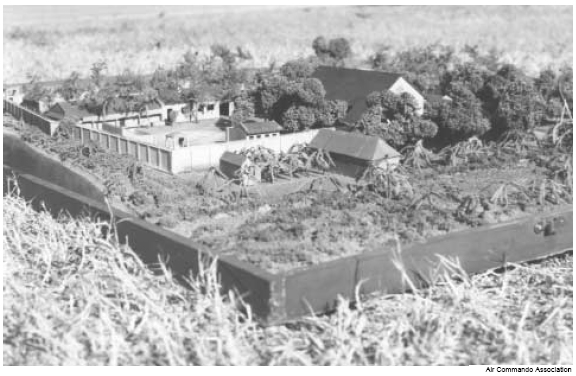 Code-named â€œBarbara,â€ U.S. intelligence built this scale model of the Son Tay prisoner-of-war compound as a training aid for the raiders.